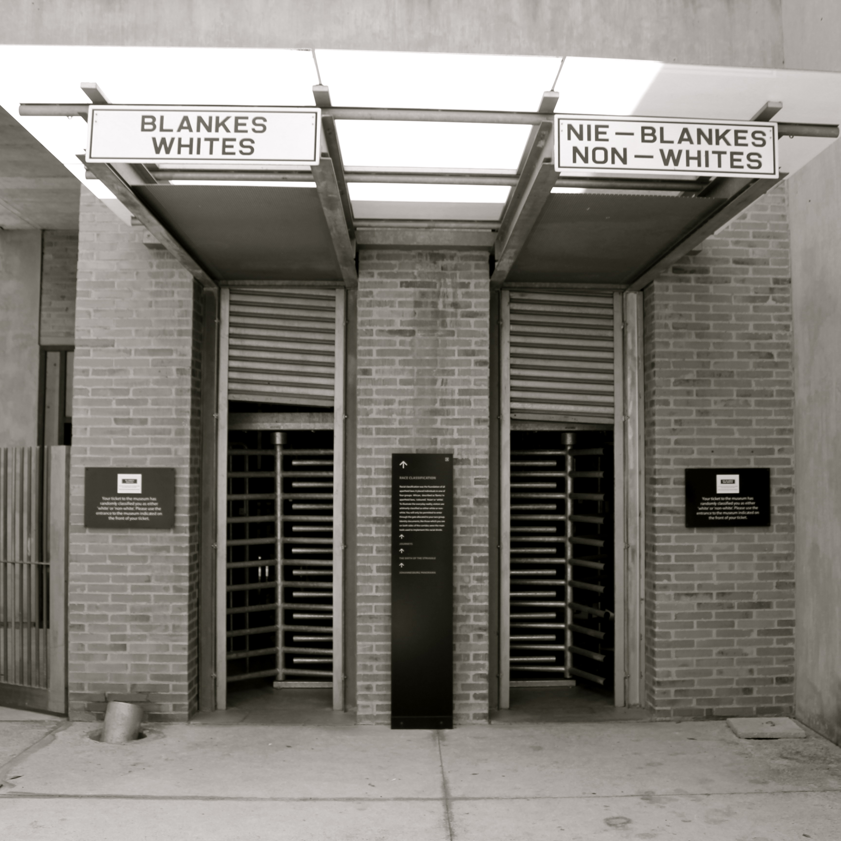 The entrance to the Apartheid Museum in Johannesburg. Your purchased ticket indicates what "color" you are, therefore which entrance your ticket is valid for. You will likely be torn from your group at this point, but not to worry, you will be rejoined later. This media shows a South African Protected Site with SAHRA file reference [1].